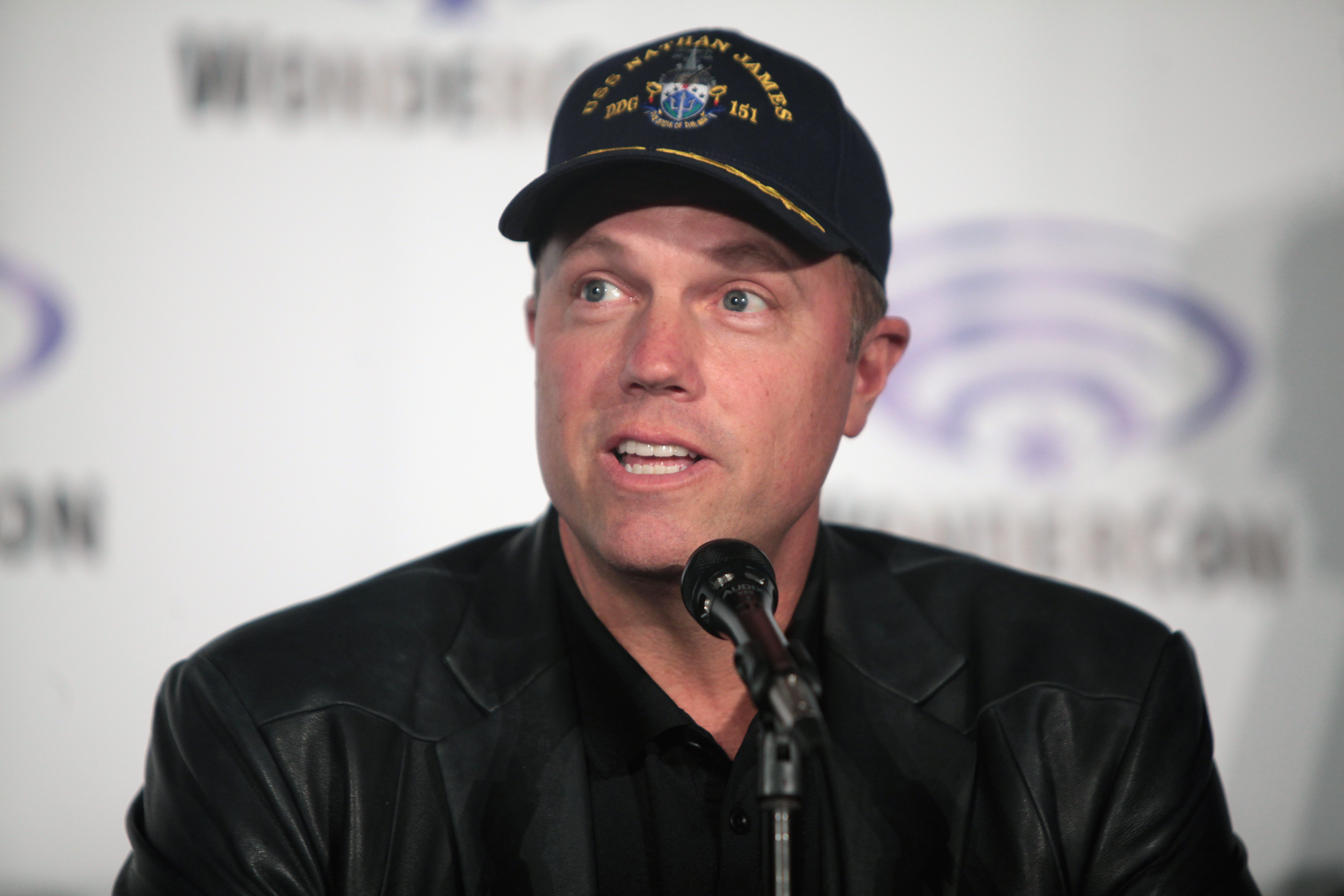 Adam Baldwin speaking at the 2016 WonderCon, for "The Last Ship", at the Los Angeles Convention Center in Los Angeles, California.